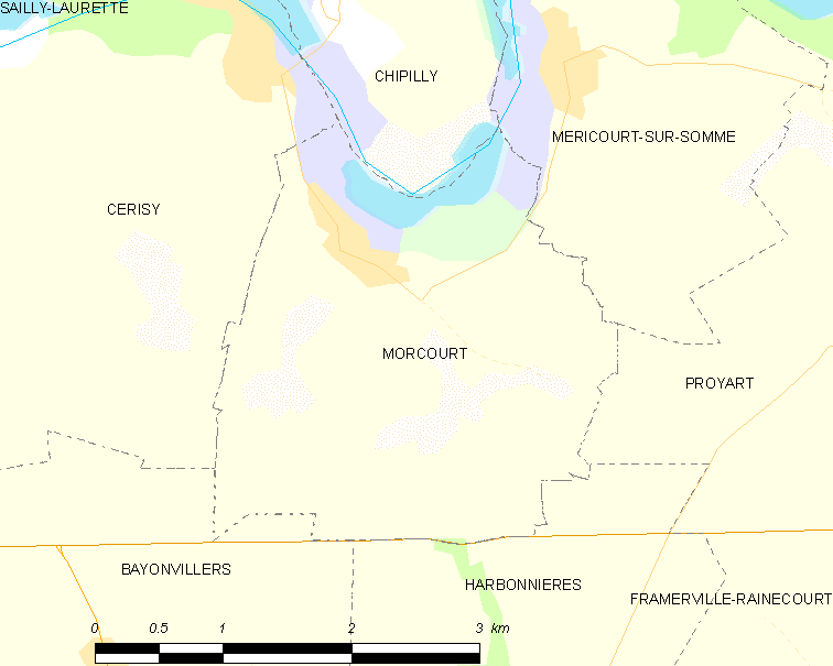 Map of French municipality Morcourt